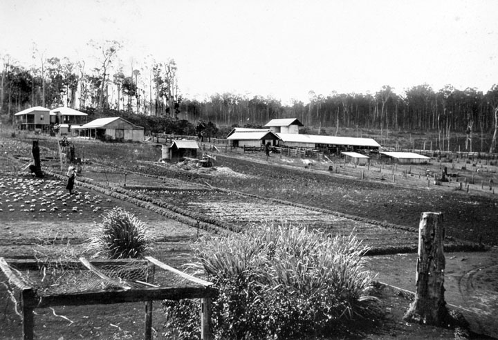 State farm, Kairi, North Queensland.